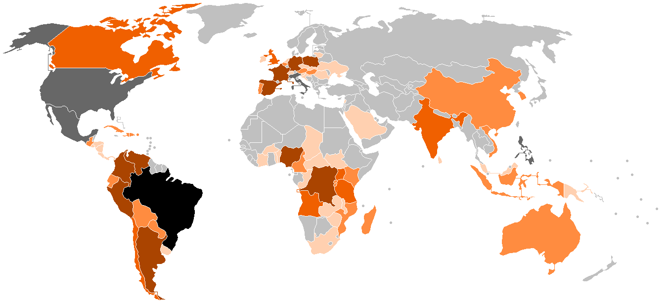 This map shows countries with more than 1.000.000 Catholics in 2010. Data taken from Pewforum Christianity Report. Legend: More than 100 million More than 50 million More than 20 million More than 10 million More than 5 million More than 1 million